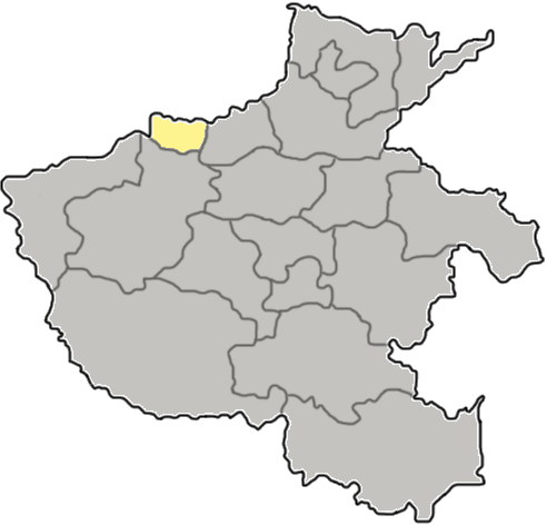 Maps of Henan Province of China